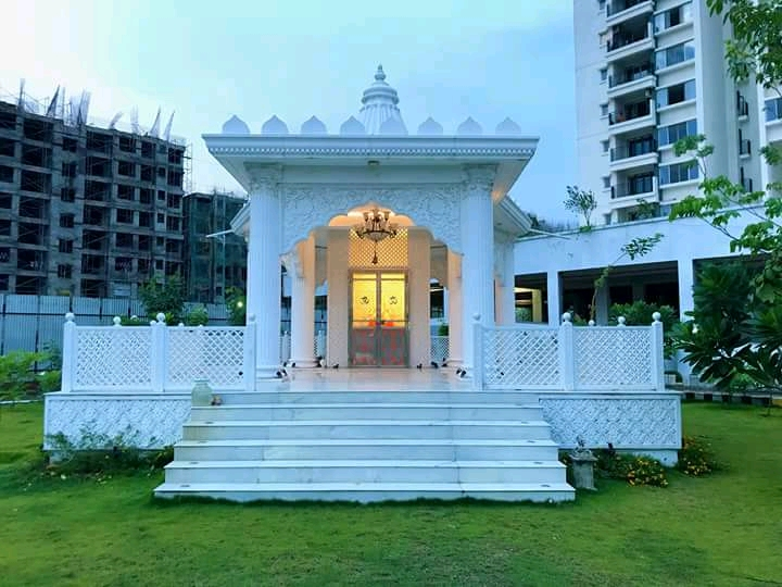 The Temple of the campus